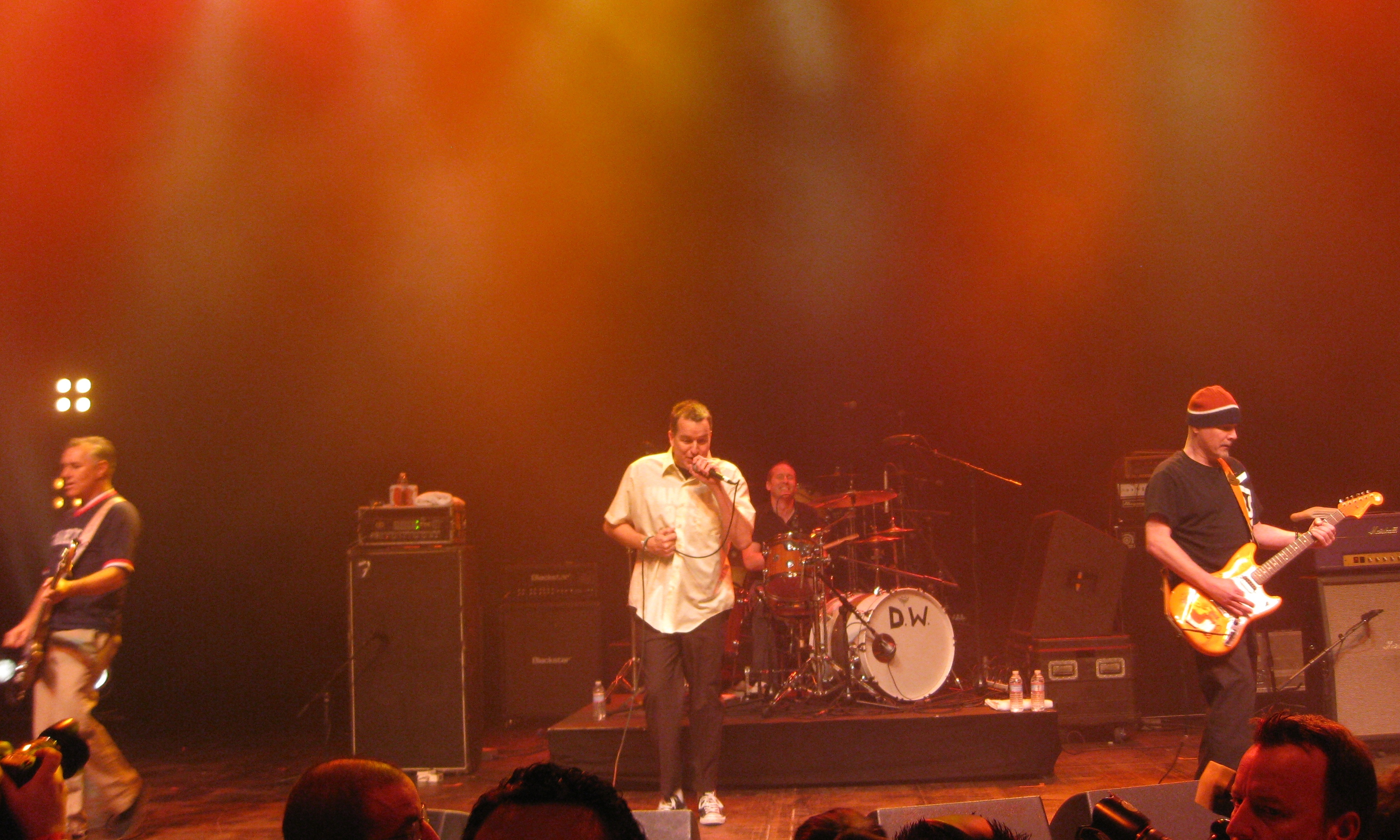 The Vandals performing December 18, 2011 at the Santa Monica Civic Auditorium in Santa Monica, California as part of the GV30 event. Left to right: bassist Joe Escalante, singer Dave Quackenbush, drummer Josh Freese, and guitarist Warren Fitzgerald.